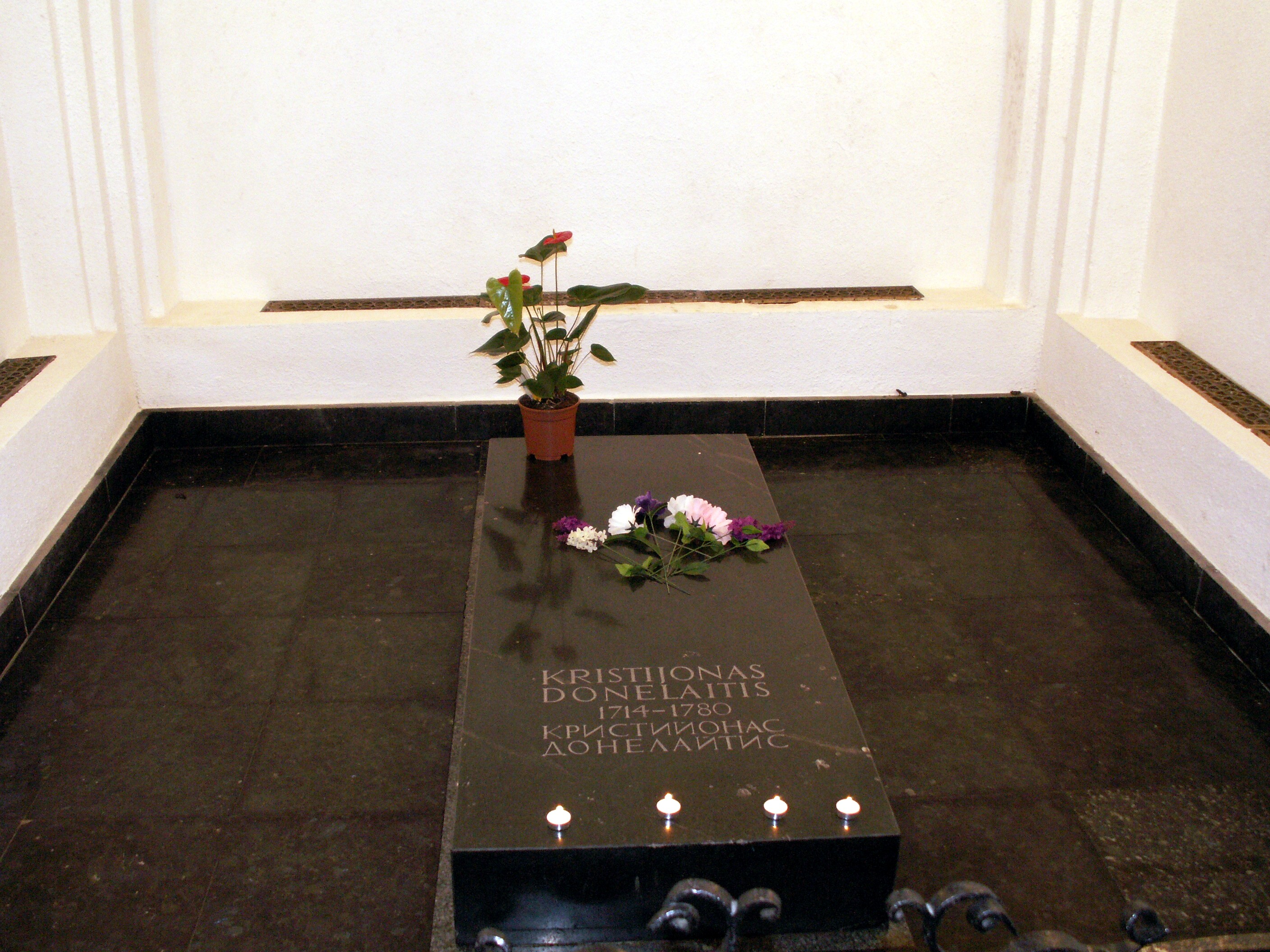 Tolminkiemis (Tchistye Prudy) in Kaliningrad oblast. Museum of Kristijonas Donelaitis